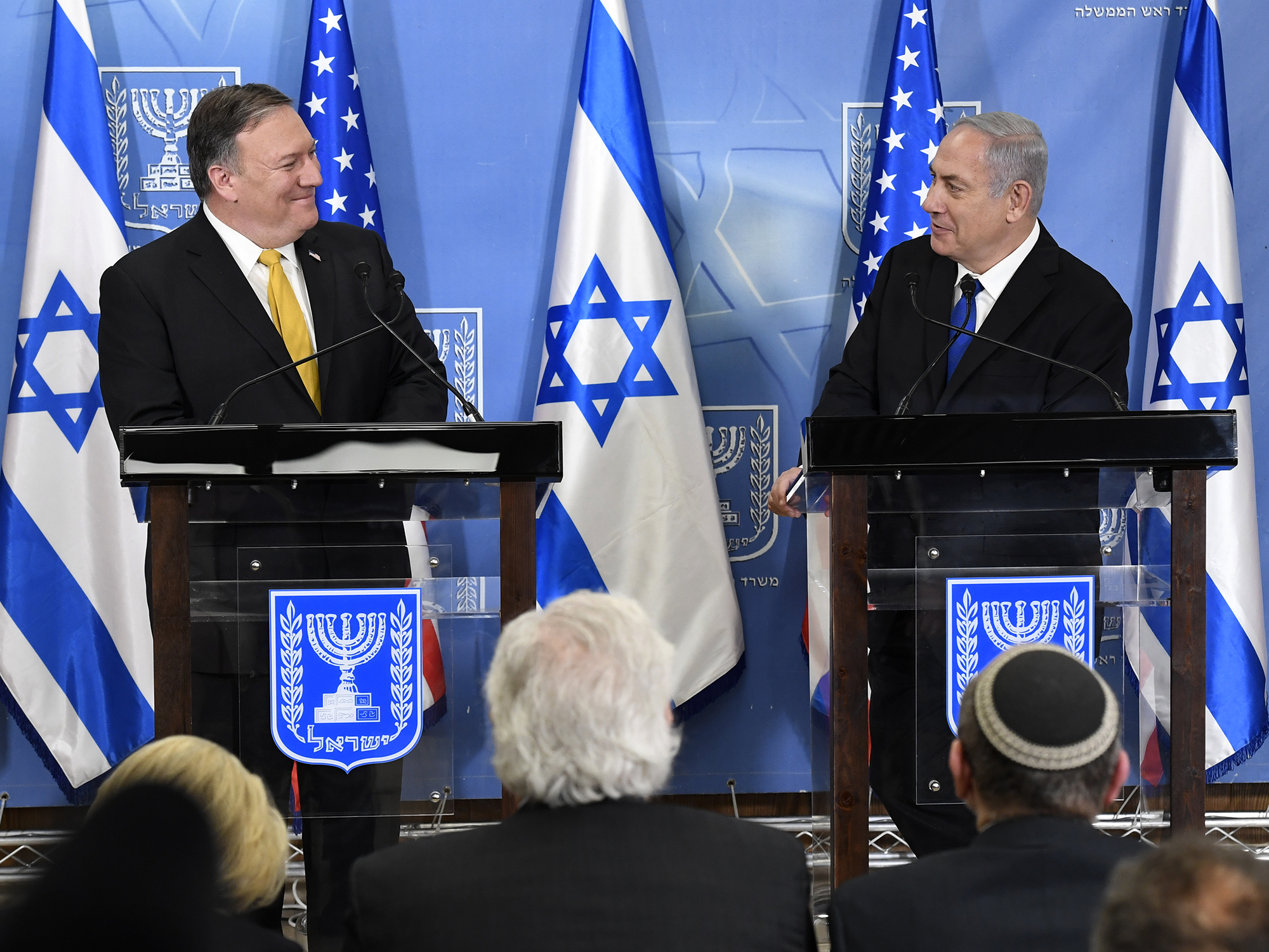 SecStae Mike Pompeo viasit to Israel. April 2018